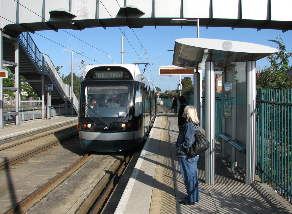 Tram stopping at Basford